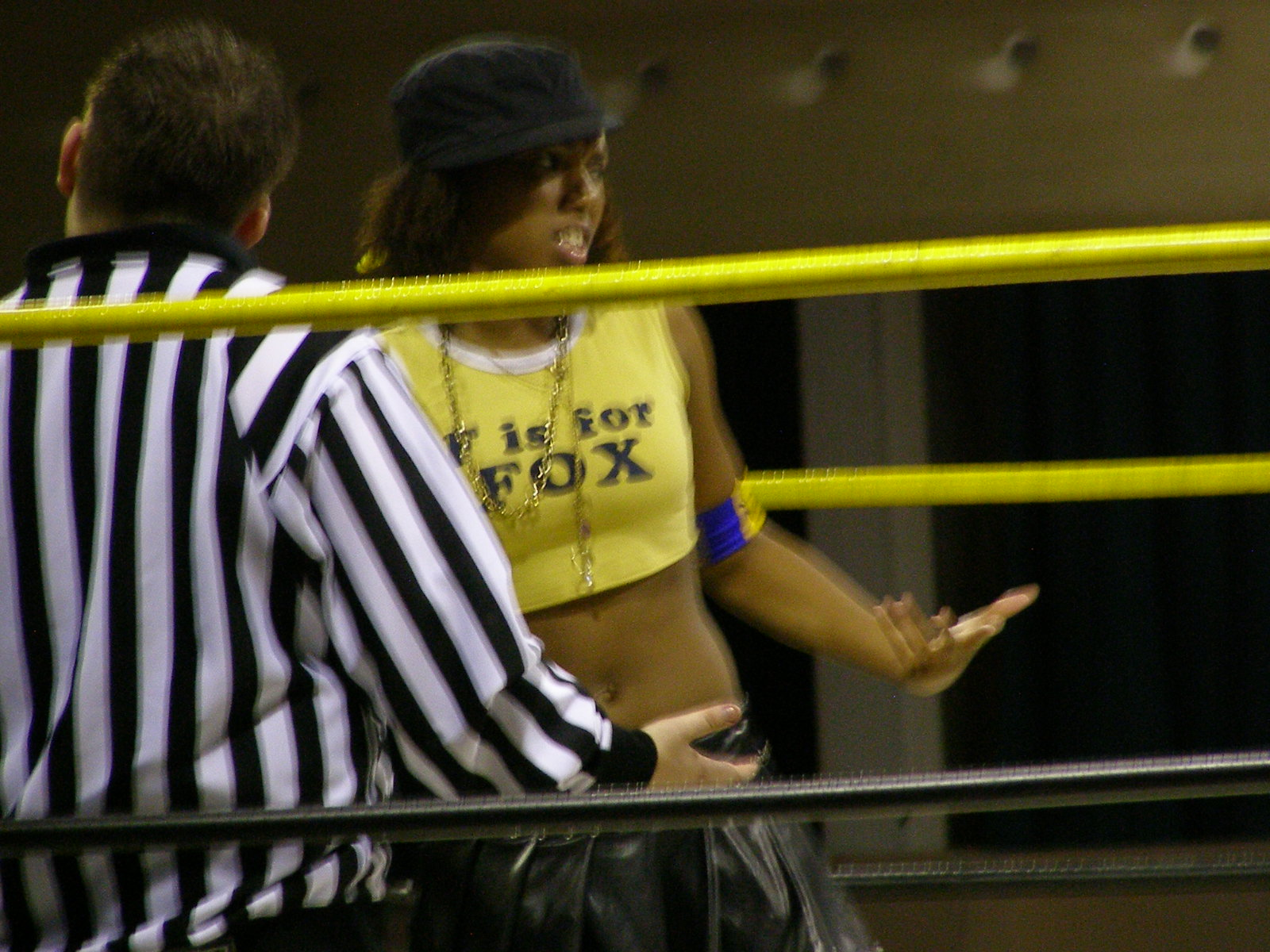 21st Century Fox at an Ultimate Championship Wrestling show in Halifax, Nova Scotia in July 2008.